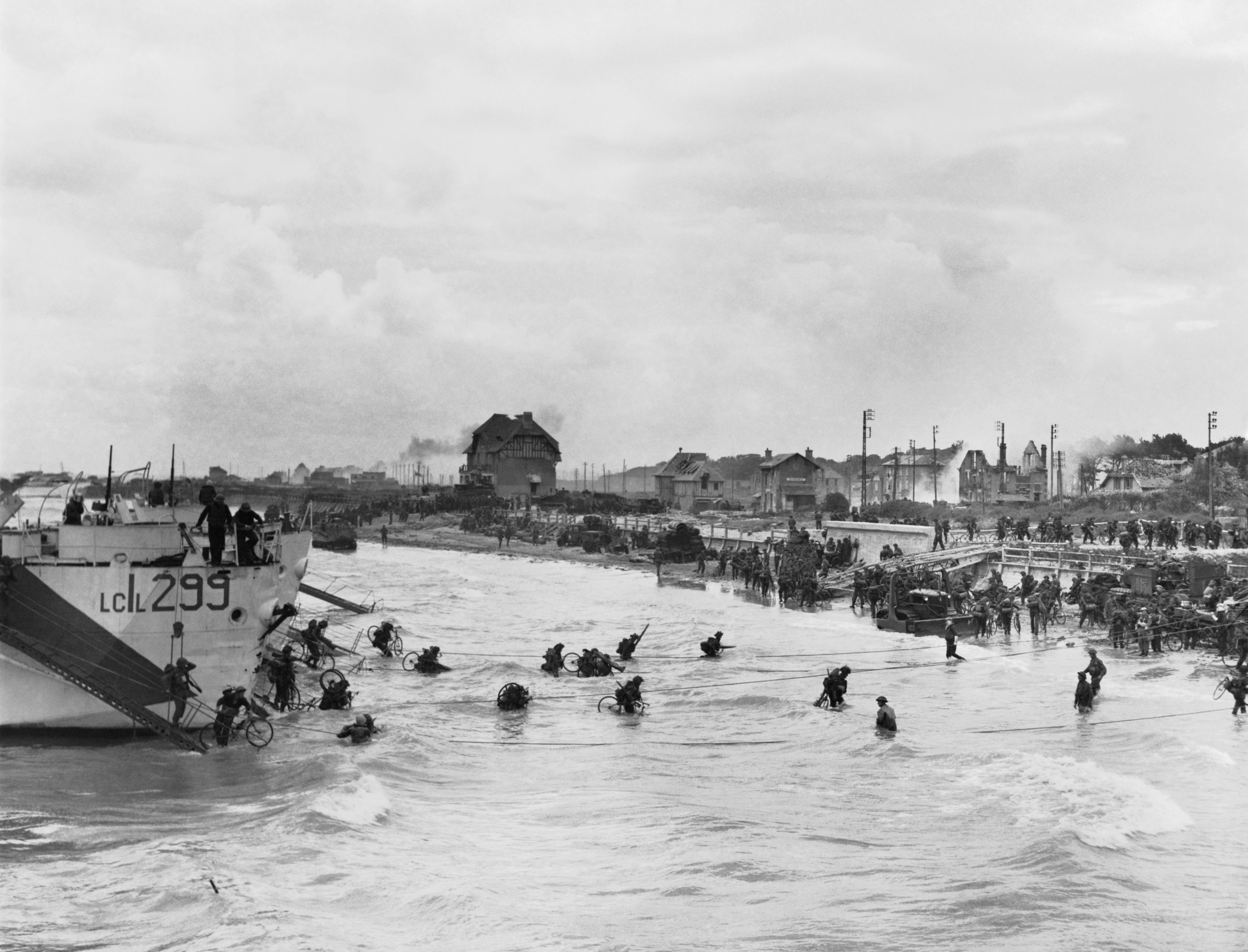 The British 2nd Army: Second wave troops of 9th Canadian Infantry Brigade, probably Highland Light Infantry of Canada, disembarking with bicycles from LCI(L)s (Landing Craft Infantry Large) onto 'Nan White' Beach, JUNO Area at Bernières-sur-Mer, shortly before midday on 6 June 1944.